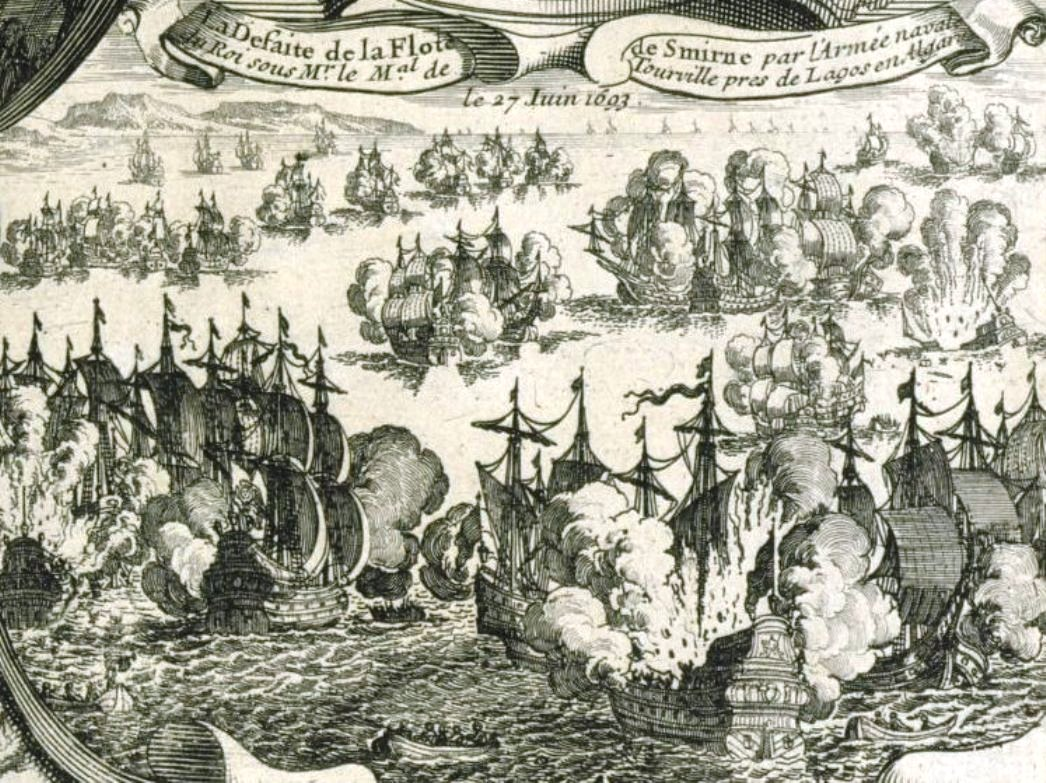 Attack on the convoy of Smyrna in 1693 by the squadron of Tourville.